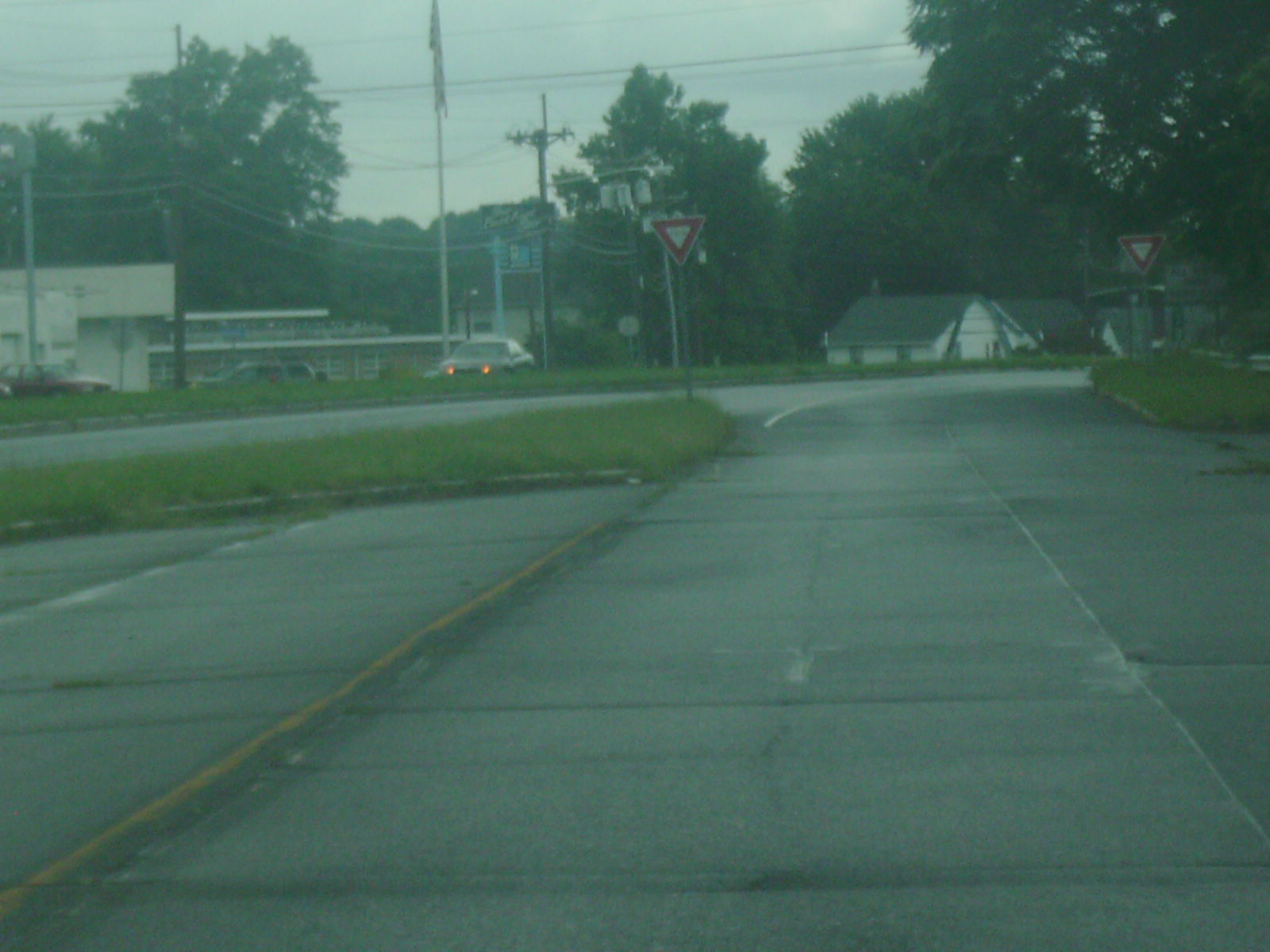 The former alignment of New Jersey Route 160 (Mission Road) in Mercer County, heading towards its former northern terminus of U.S. Route 206.